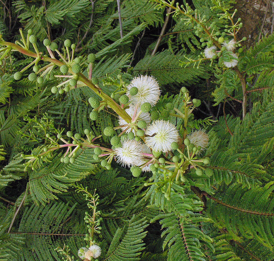 Found from southern U.S. to Colombia under names such as Huaje and Carboncillo. Photo from Oaxaca State, Mexico. In context at